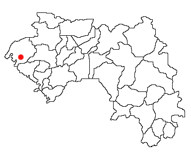 Boké, Guinea Location Map; created with the GIMP. Made by User:Acntx.